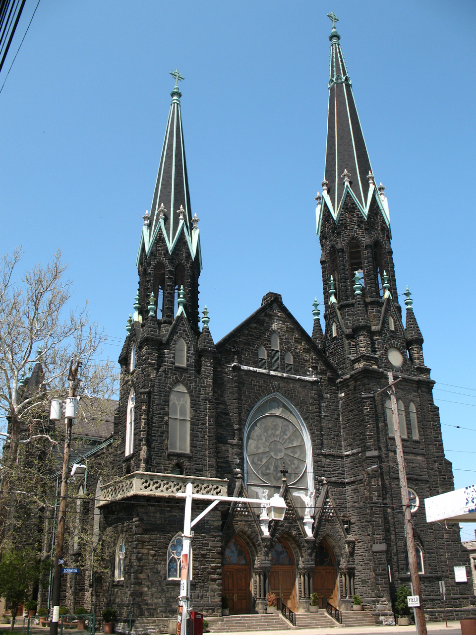 Photo taken by me May 10, 2007 using a Canon PowerShot A630.